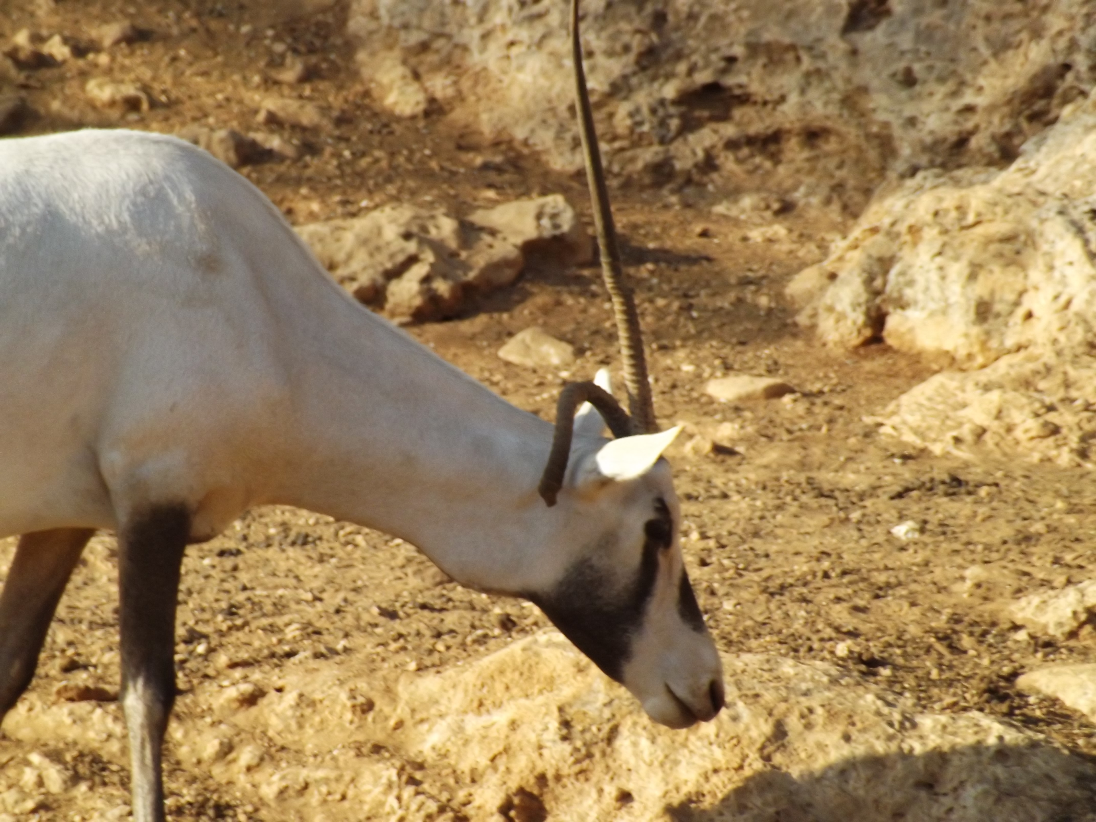 An Arabian Oryx (Oryx leucoryx) at the Jerusalem Biblical Zoo.